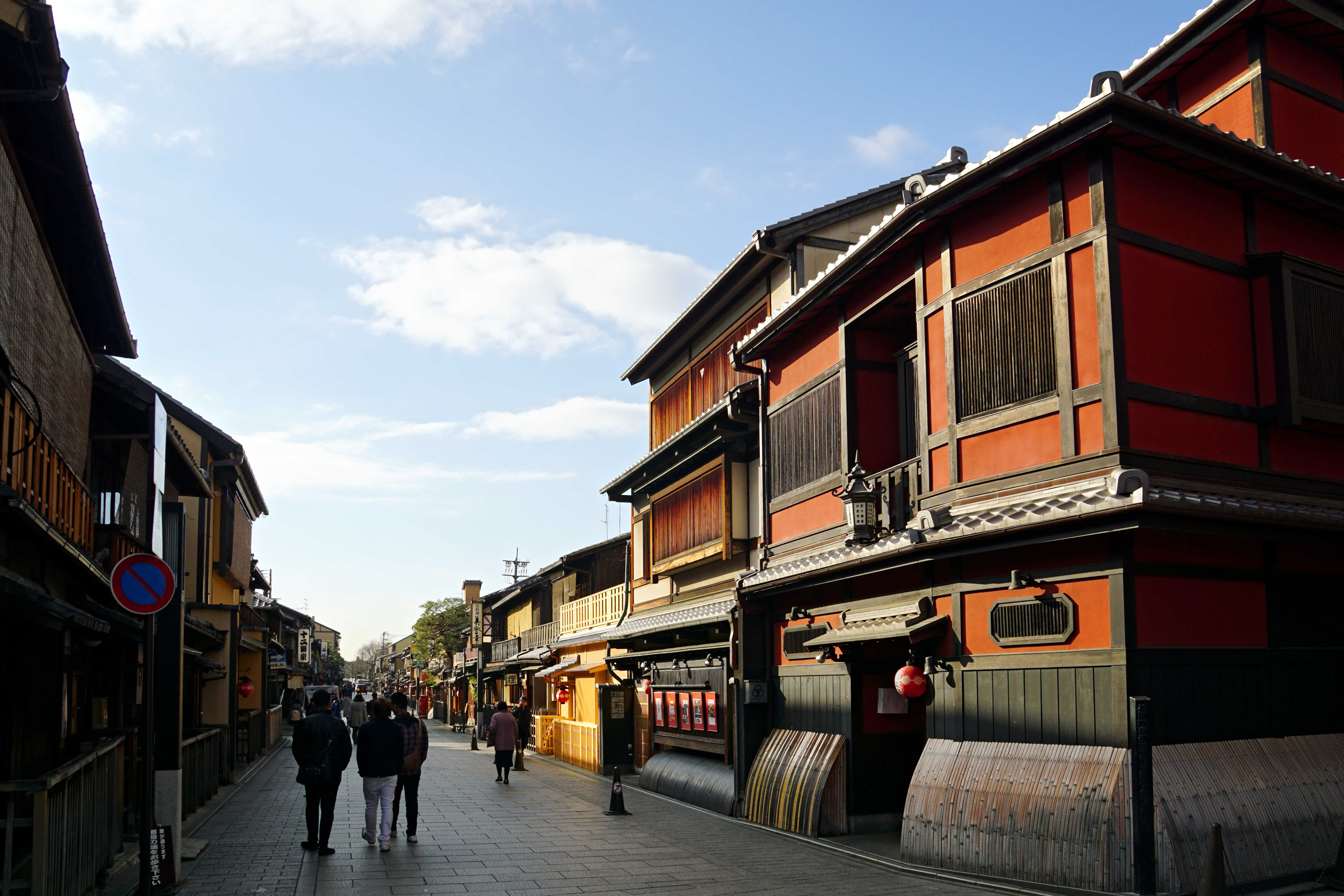 At Hanamikoji Street in Gion, Kyoto, Kyoto prefecture, Japan.